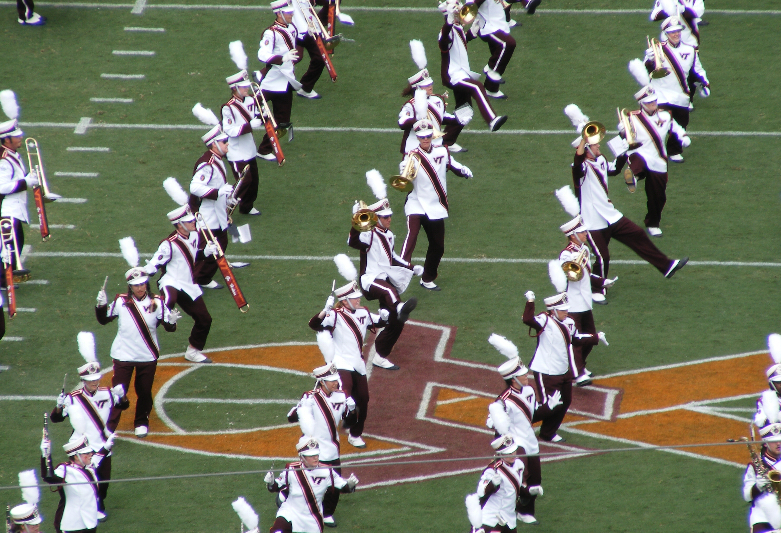 The Virginia Tech Marching Virginians (en) perform during the Hokies' 2007 opener against East Carolina